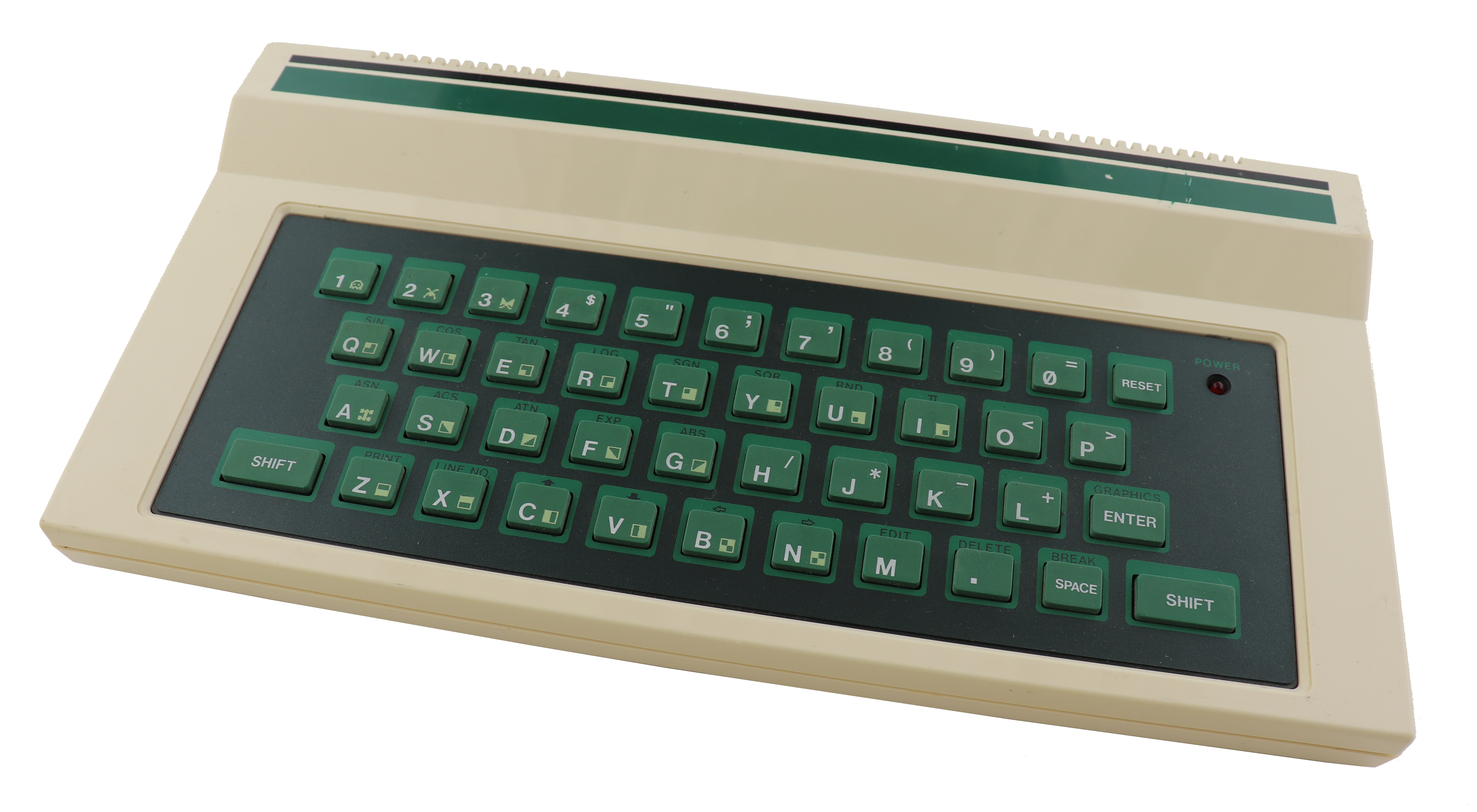 Front of Lambda 8300 ZX81 clone